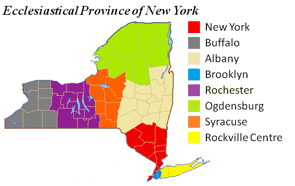 The Province of New York in the Catholic Church encompasses the entire state of New York, USA.